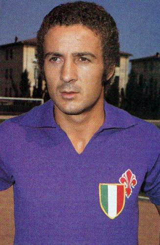 Italian association football player Luciano Chiarugi wearing the jersey of ACF Fiorentina just laureated Italian champion